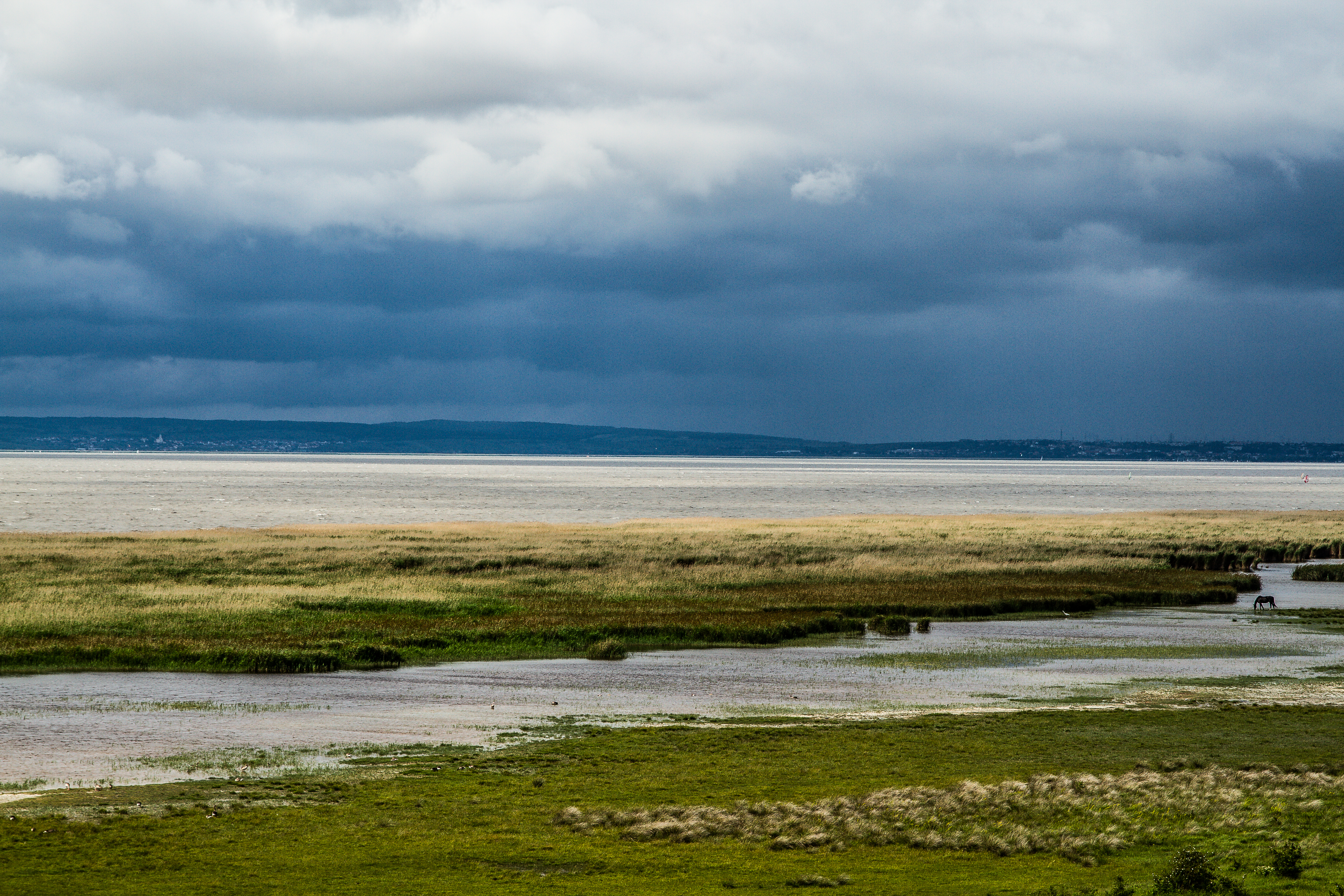 National park Neusiedlersee-Seewinkel in the south of Podersdorf. This file shows the National Park Neusiedler See-Seewinkel in Austria.